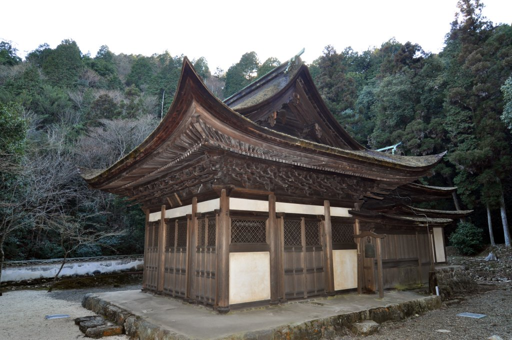 Kokeizan-kaisando